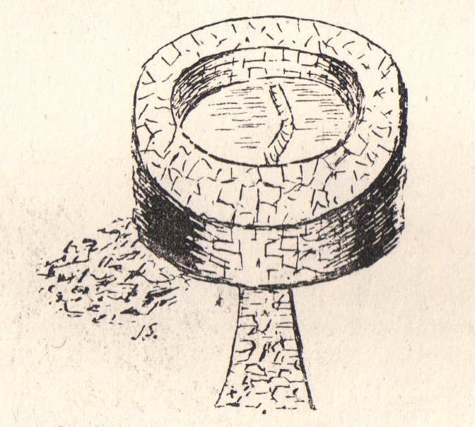 The unique stone crannog from Ashgrove Loch, Stevenston, North Ayrshire, Scotland.